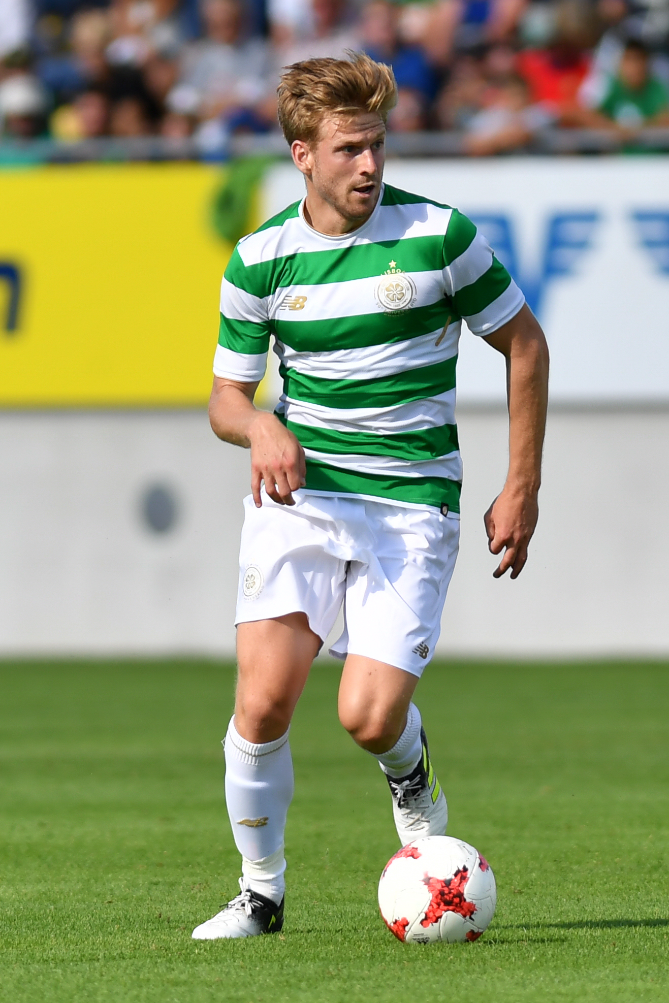 1/7/2017, Amstetten, Austria, sports, soccer, Tipico Fussball Bundesliga - preparation match SK Rapid Wien vs Celtic Glasgow. Image shows Stuart Armstrong (Celtic FC).